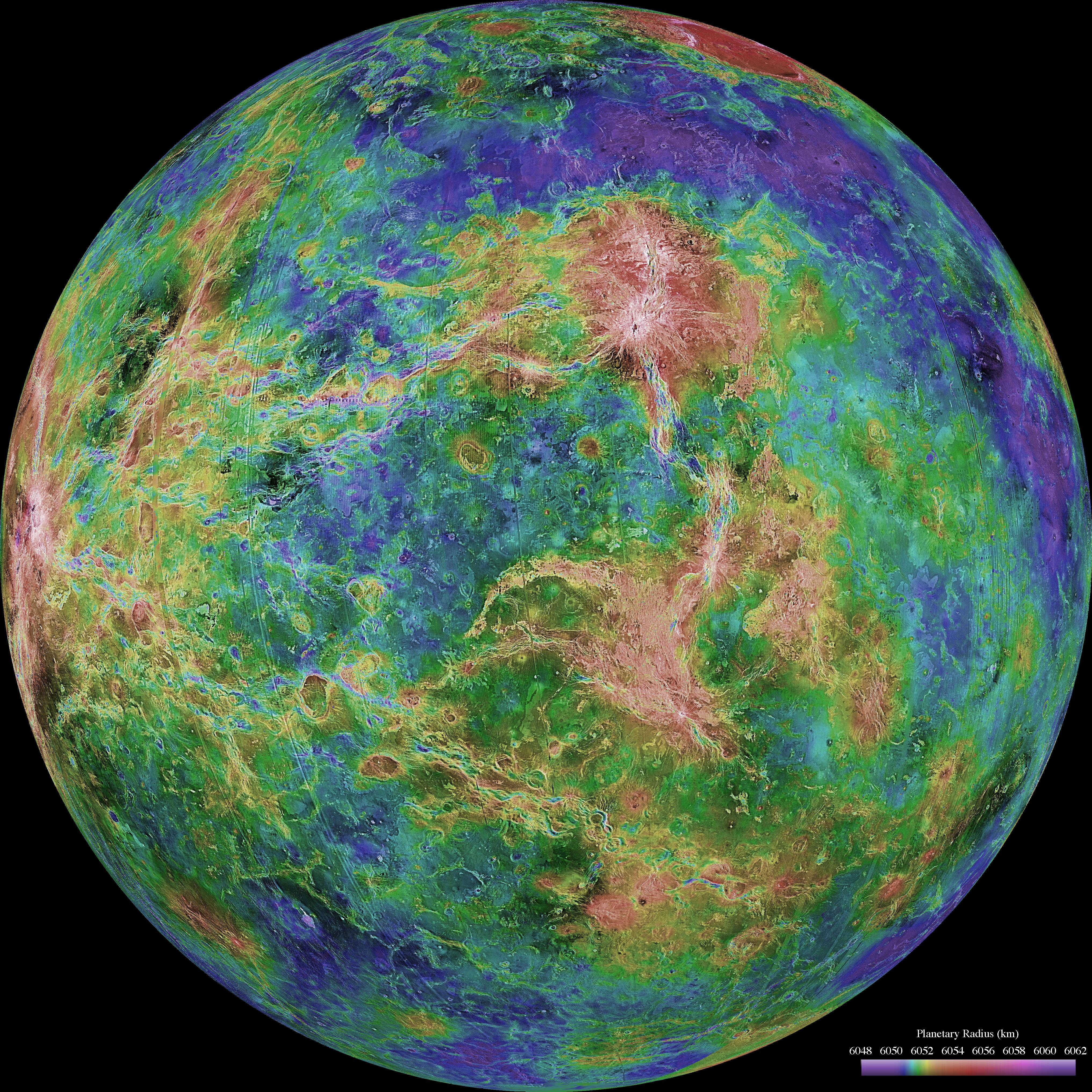 Hemispheric View of Venus Centered at 270° East Longitude Original Caption Released with Image: The hemispheric view of Venus, as revealed by more than a decade of radar investigations culminating in the 1990-1994 Magellan mission, is centered at 270 degrees east longitude. The Magellan spacecraft imaged more than 98% of Venus at a resolution of about 100 meters; the effective resolution of this image is about 3 km. A mosaic of the Magellan images (most with illumination from the west) forms the image base. Gaps in the Magellan coverage were filled with images from the Earth-based Arecibo radar in a region centered roughly on 0 degree latitude and longitude, and with a neutral tone elsewhere (primarily near the south pole). The composite image was processed to improve contrast and to emphasize small features, and was color-coded to represent elevation. Gaps in the elevation data from the Magellan radar altimeter were filled with altimetry from the Venera spacecraft and the U.S. Pioneer Venus missions. An orthographic projection was used, simulating a distant view of one hemisphere of the planet. The Magellan mission was managed for NASA by Jet Propulsion Laboratory (JPL), Pasadena, CA. Data processed by JPL, the Massachusetts Institute of Technology, Cambridge, MA, and the U.S. Geological Survey, Flagstaff, AZ.